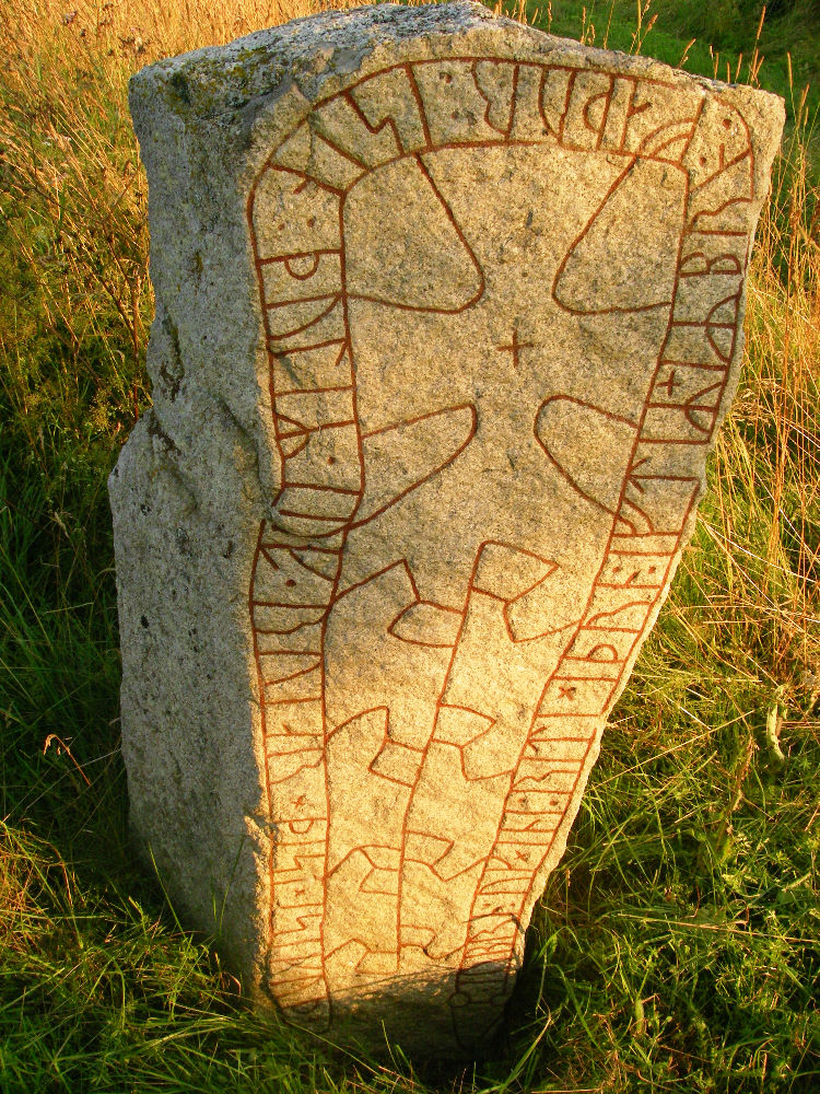 runic stone Upplands runinskrifter U519